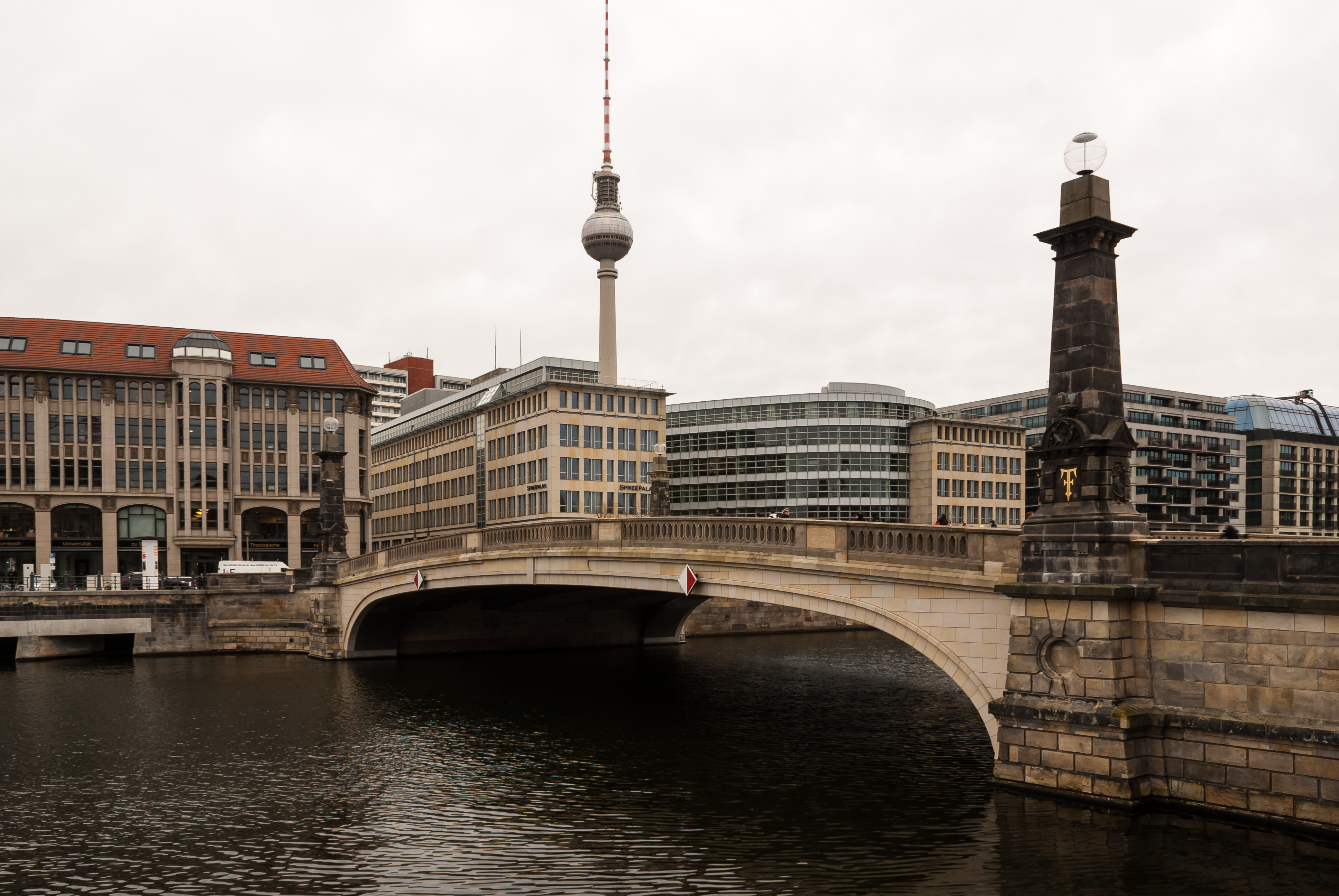 Friedrichsbrücke, Berlin